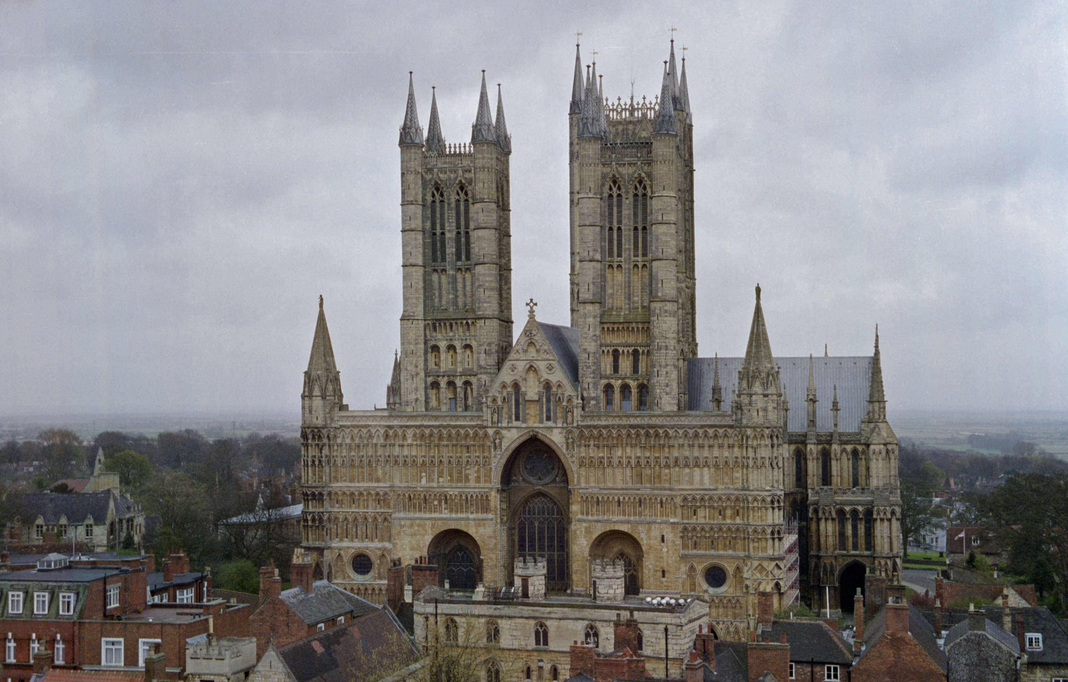 View from the great Westfront from the castle wall walk